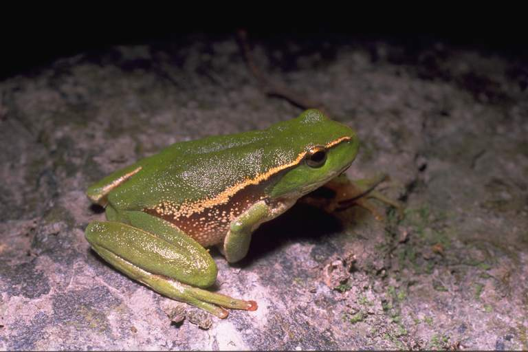 Litoria phyllochroa